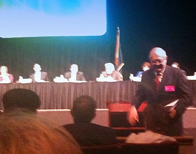 Charles E. Jones, retired Chief Justice of the Arizona Supreme Court, after speaking before the Phoenix City Council in support of a zoning exception for the proposed LDS Phoenix Arizona Temple. Taken at the Orpheum Theater, Phoenix, Arizona, 2 December 2009.